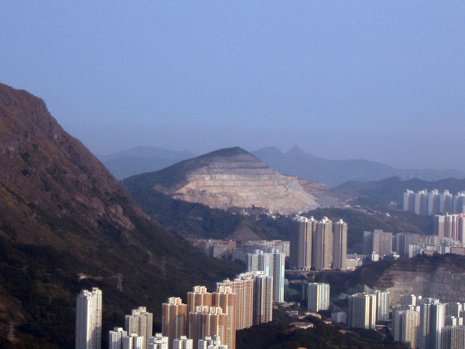 Photo of Tai Sheung Tok